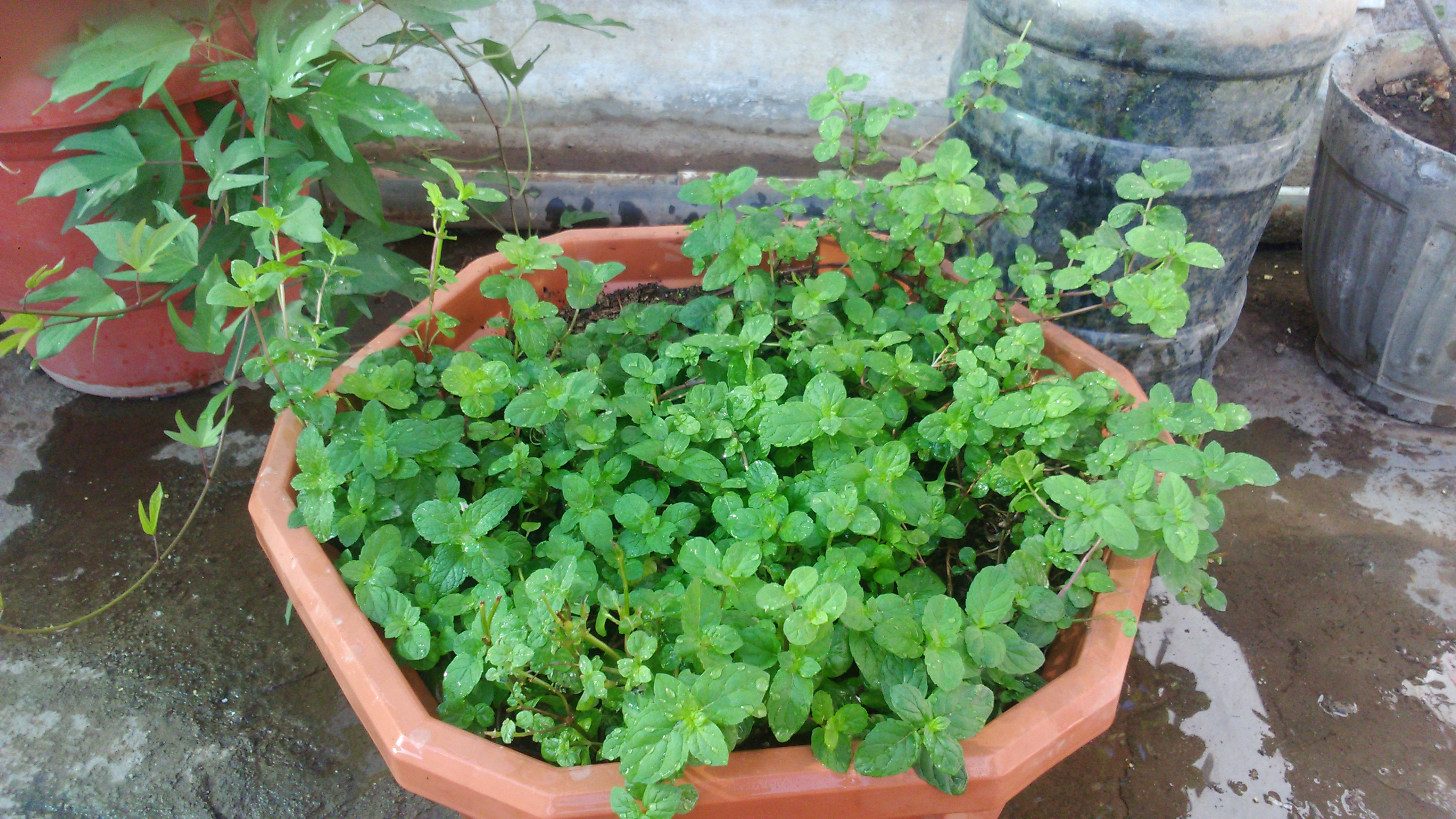 Fresh Mint leaves